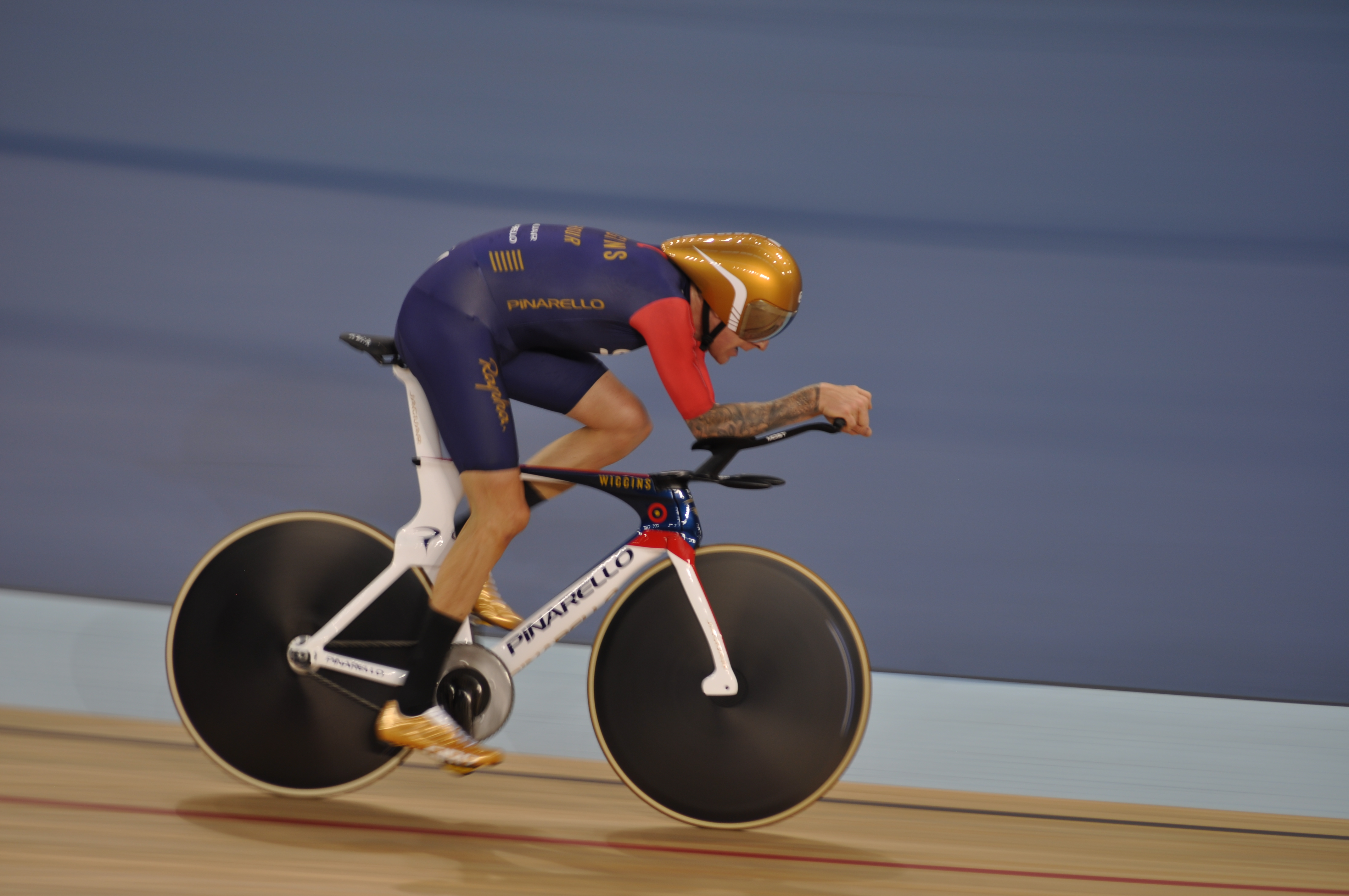 Bradley Wiggins Hour Record 07.06.15 Lee Valley Velodrome London